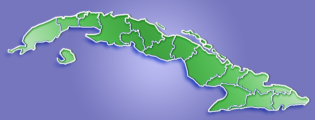 Provinces of Cuba (1976-2010)